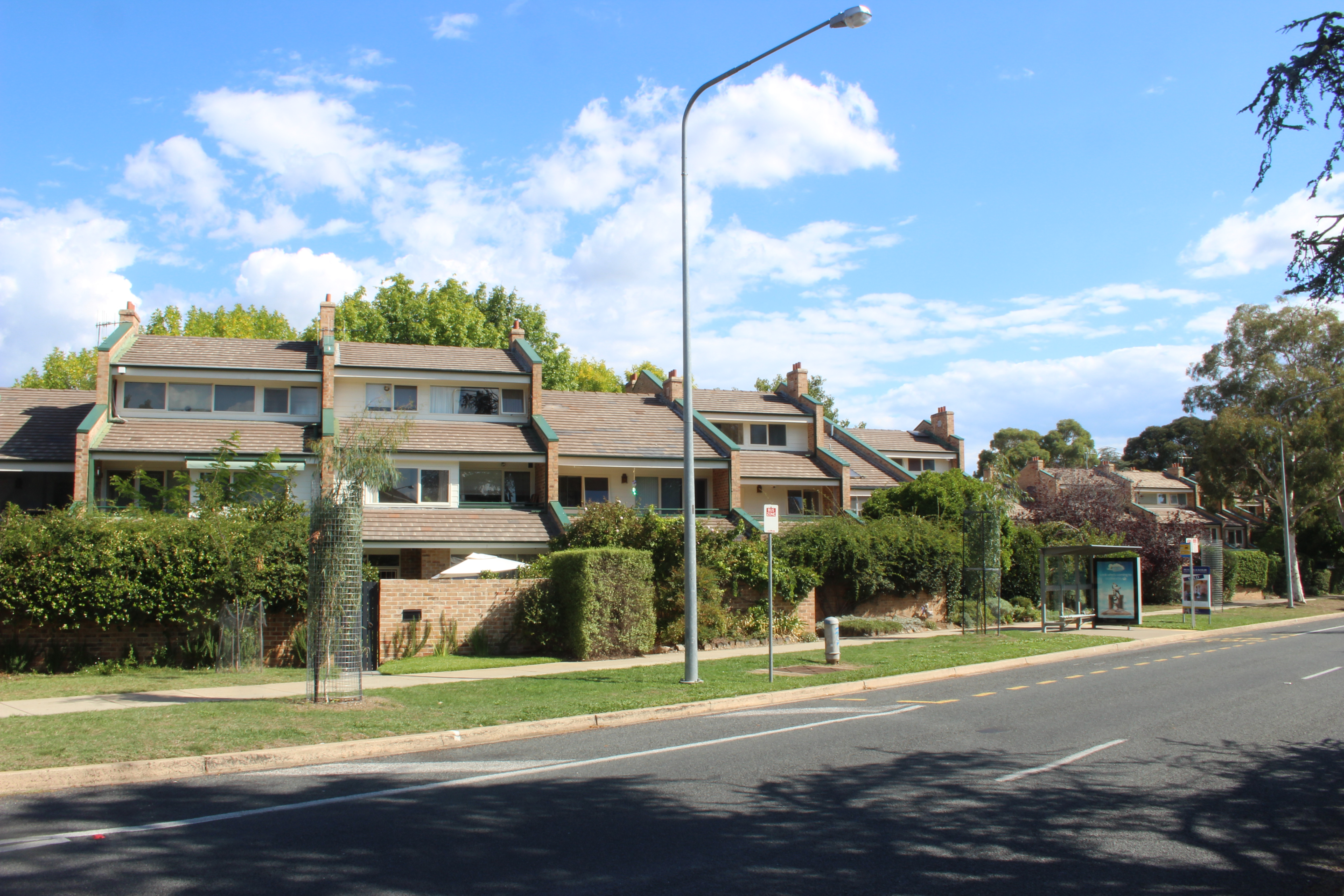 Argyle Apartments